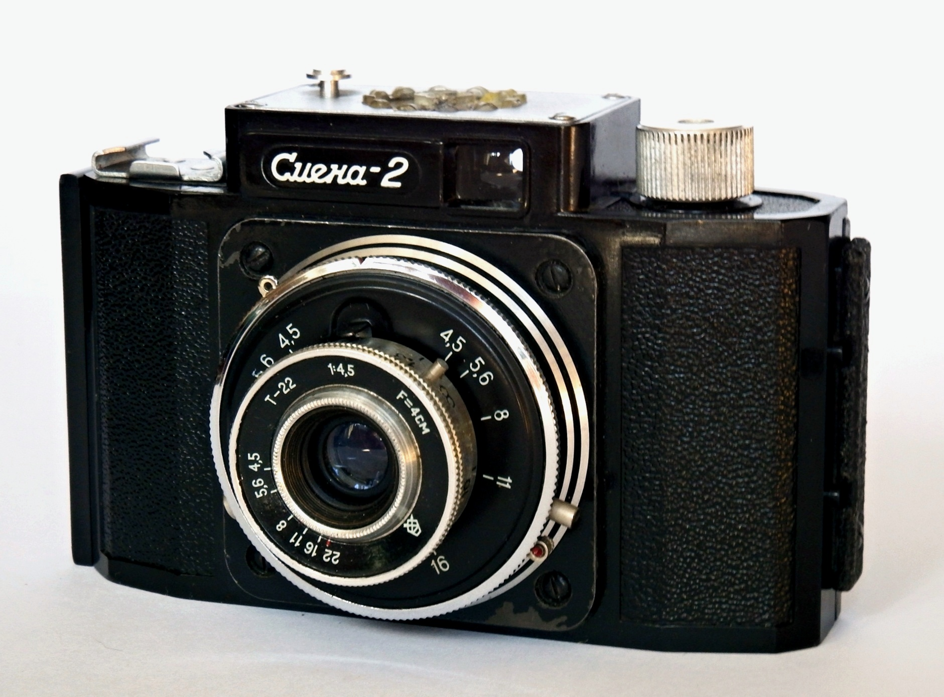 Smena 2 / Смена 2